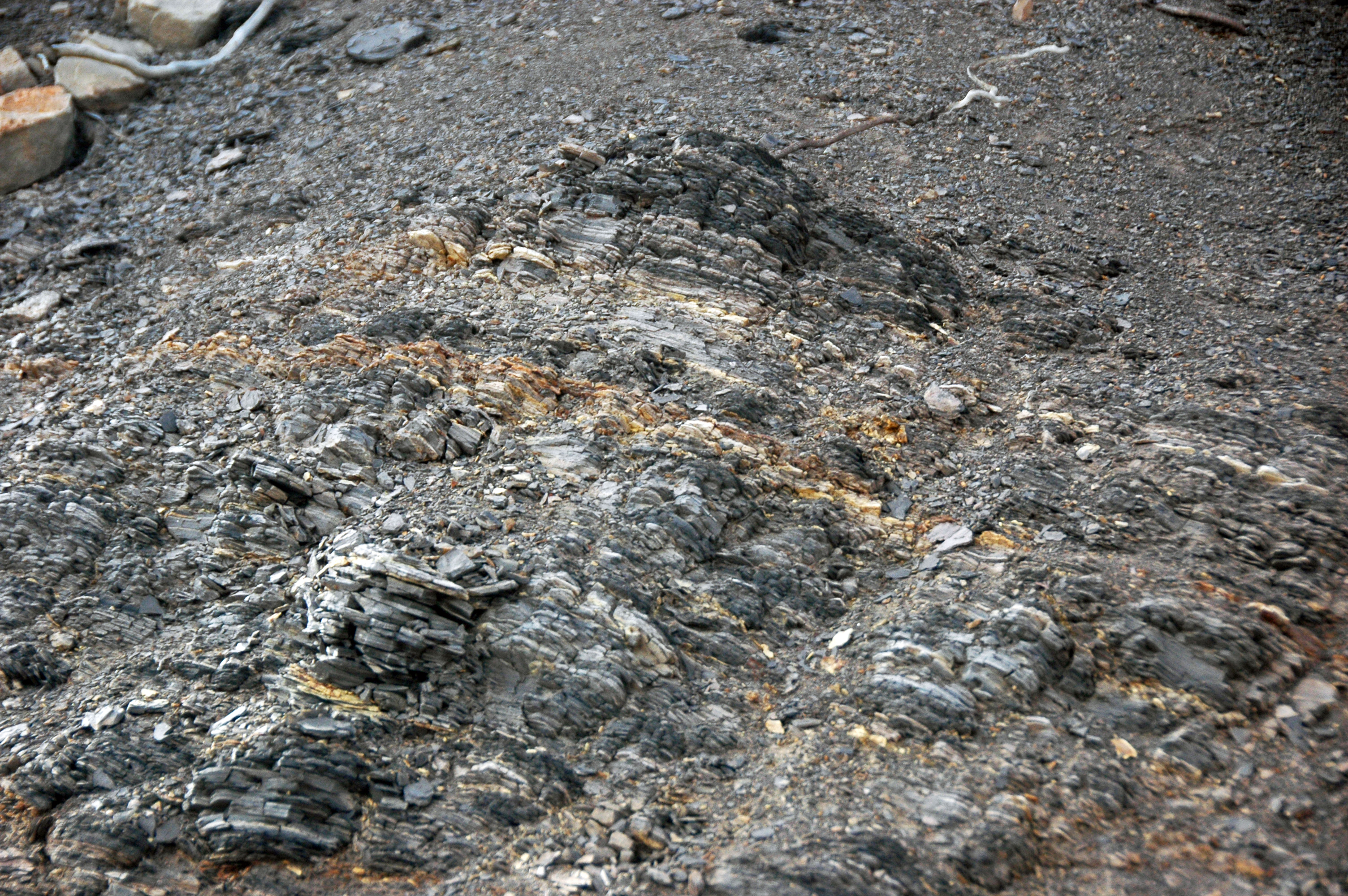 Shales & bentonites in the Cretaceous of Colorado, USA. The Benton Shale is a widespread marine shale unit in the Cretaceous of western America. It was deposited in the ancient Western Interior Seaway at a time of globally-high sea level. The thin, lighter-colored horizons in this dark gray shale exposure are volcanic ash beds. Such horizons are called "bentonites", which are named after the Benton Shale itself. Stratigraphy: Benton Shale, Upper Cretaceous Locality: slope exposure along the Lower Hogback Trail, Red Rock Canyon Open Space, western side of the town of Colorado Springs, western El Paso County, central Colorado, USA (~vicinity of 38° 50’ 54.92” North latitude, 104° 52’ 30.71” West longitude)